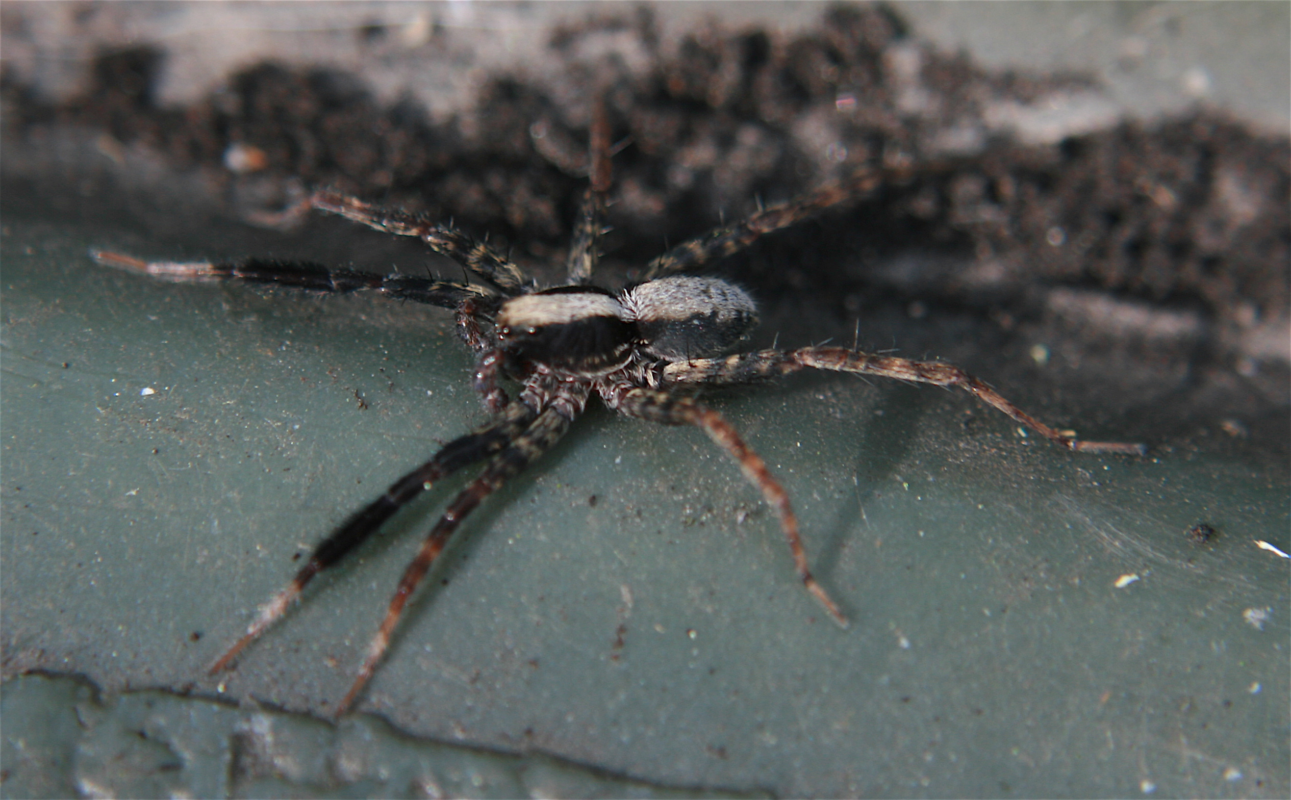 Wolf spider (Schizocosa crassipes) on Bicentennial Trails, Portage, Michigan.